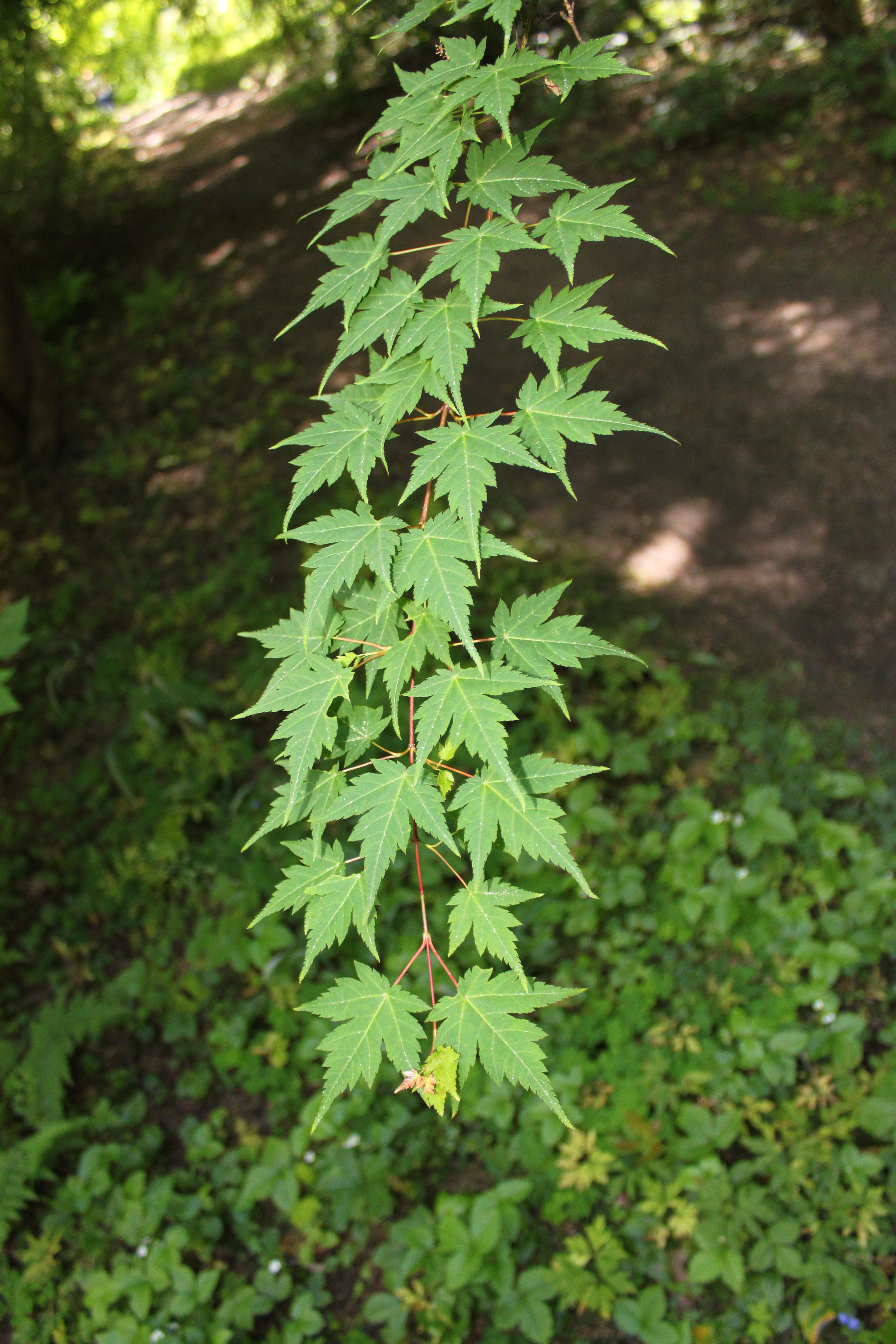 Acer micranthum foliage in Rogów Arboretum, Poland